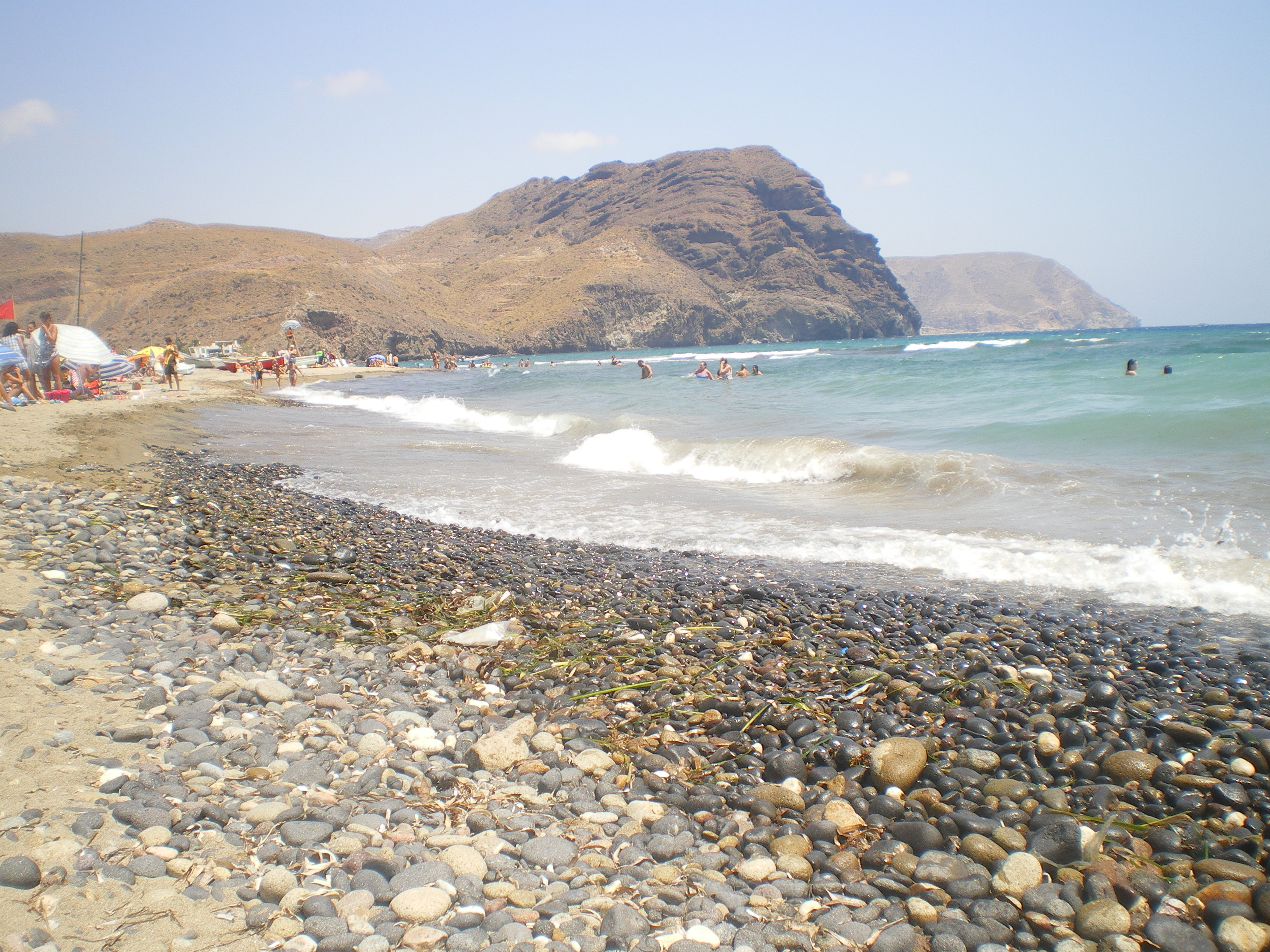 Las Negras beach (Almeria, Spain)